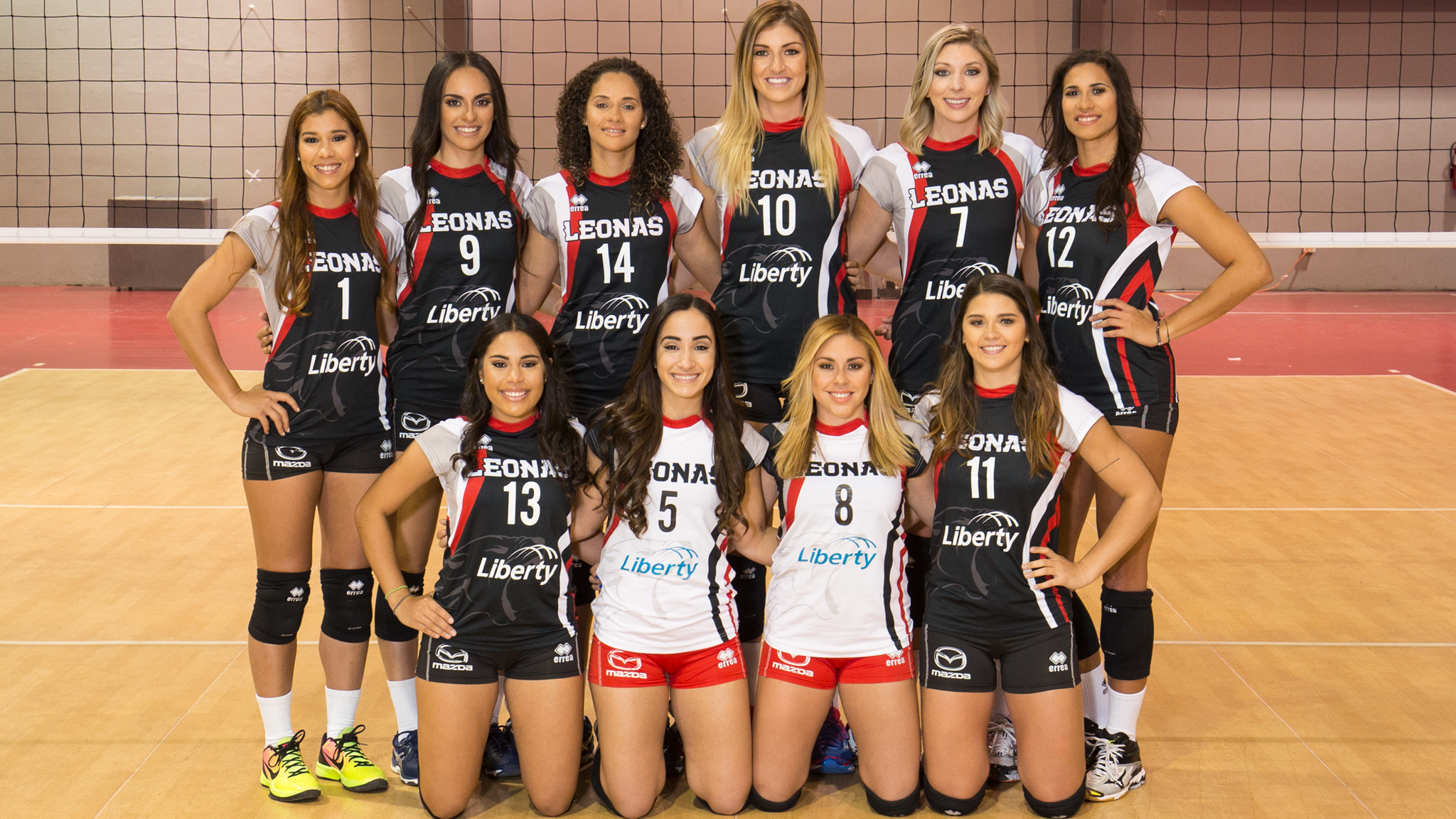 Equipo 2017 Ponce Leonas